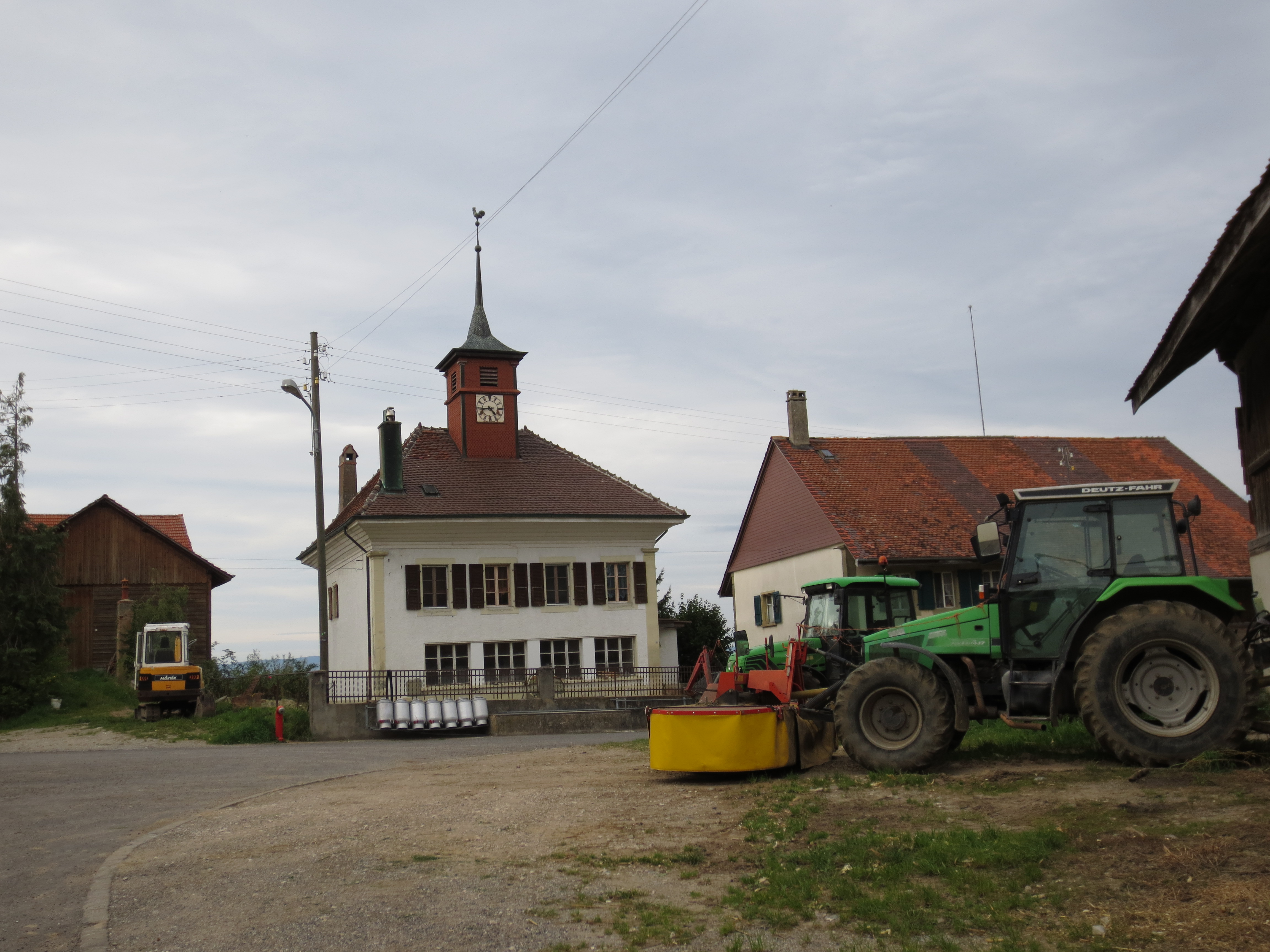 Cerniaz College, Valbroye, Canton of Vaud, Switzerland